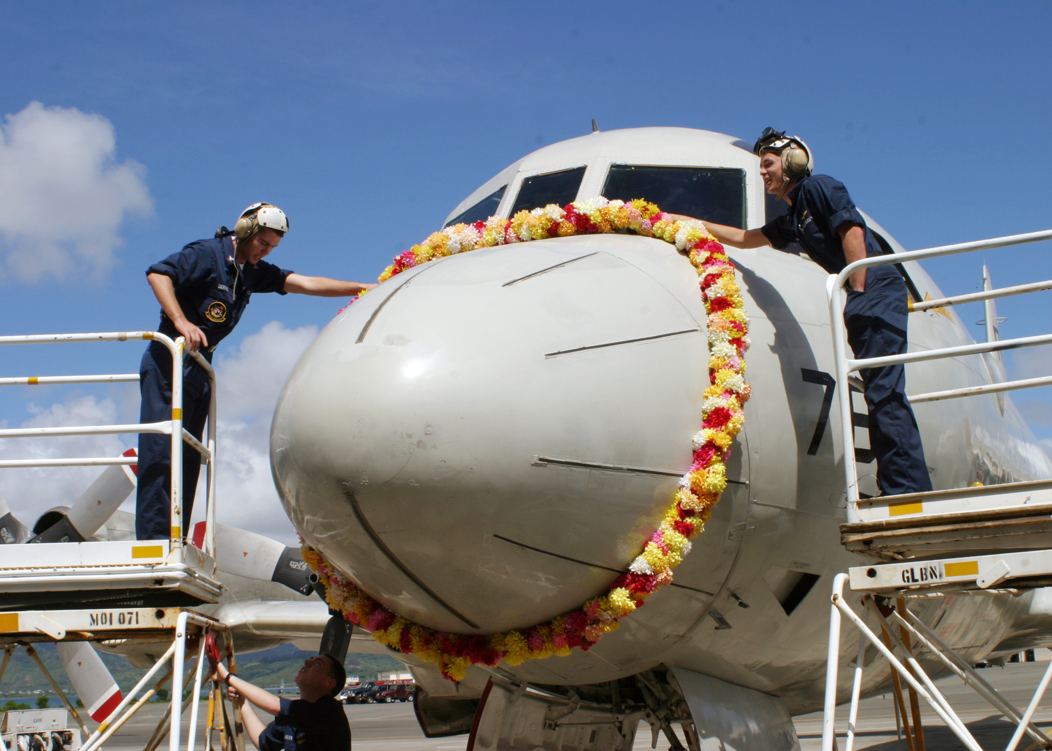 Kaneohe, Hawaii (Jun. 3, 2004) - Sailors assigned to the "Golden Swordsmen" of Patrol Squadron Four Seven (VP-47), carefully place a flower lei on the nose of a P-3C Orion. This is the first aircraft of VP-47 returning home from a six-month deployment supporting operations in the 5th fleet Area of Responsibility. The P-3C Orion is a land based, long-range anti-submarine warfare patrol aircraft that provides effective undersea reconnaissance capabilities to naval joint commanders. U.S. Navy photo by Photographer's Mate 2nd Class Kelton Washington (RELEASED)